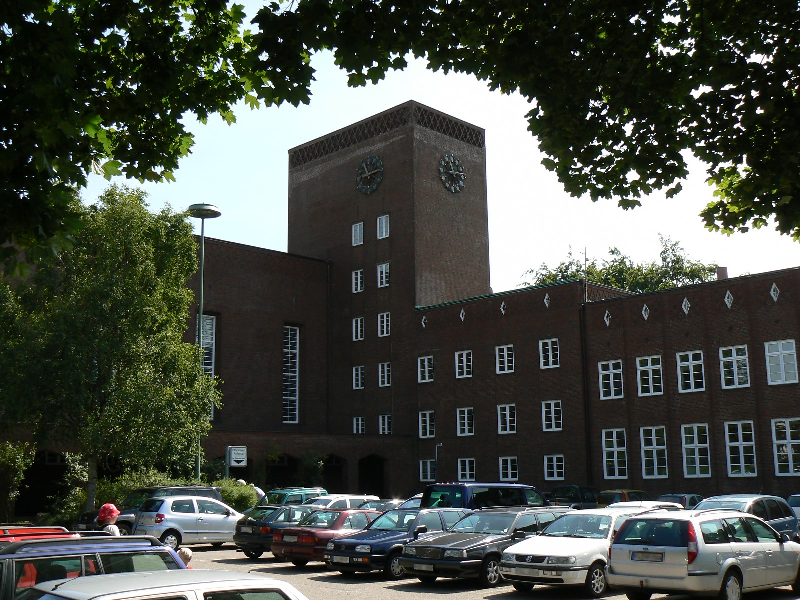 Meeting and event hall Deutsches Haus in Flensburg (side entrance).